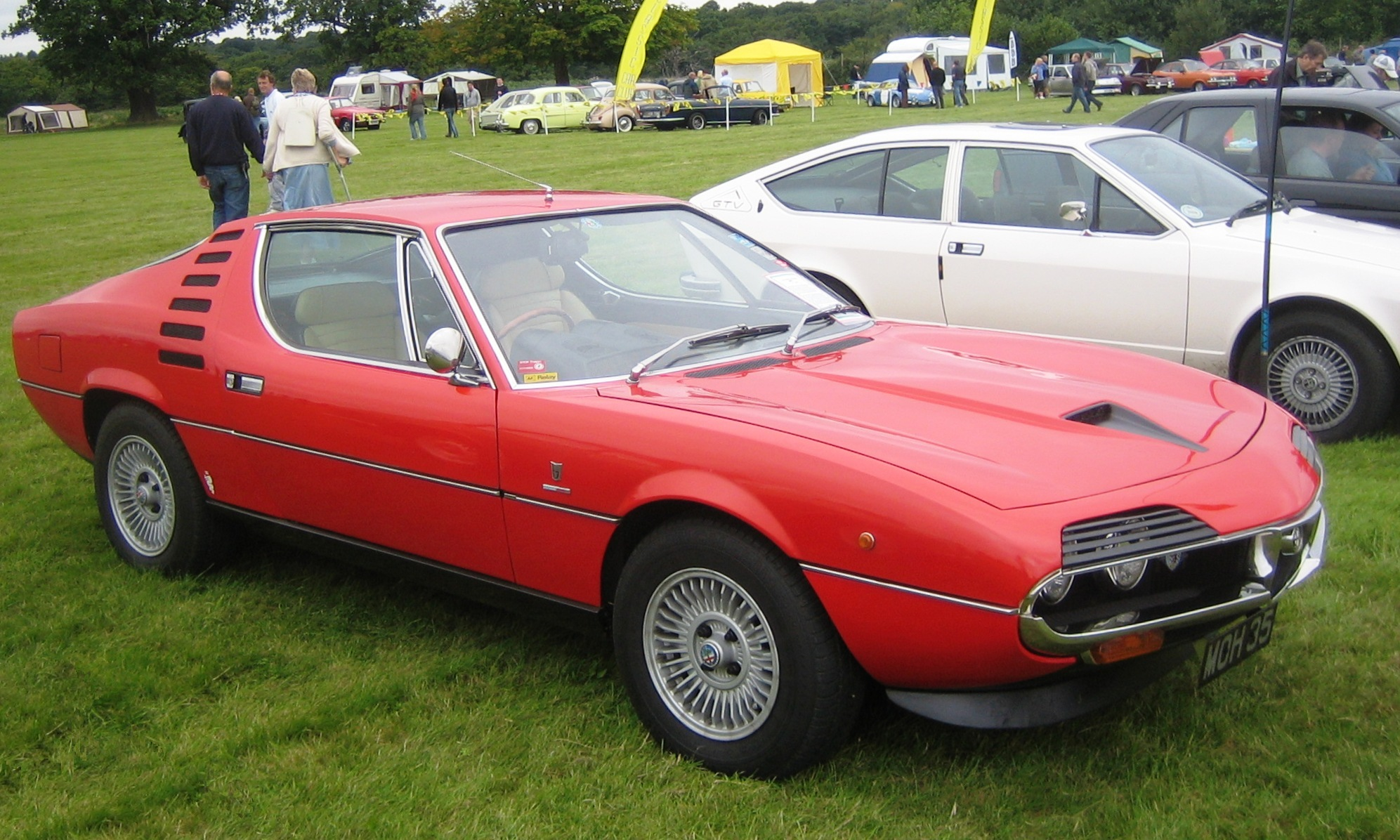 Alfa Romeo Montreal at Knebworth CLassic Car Fest